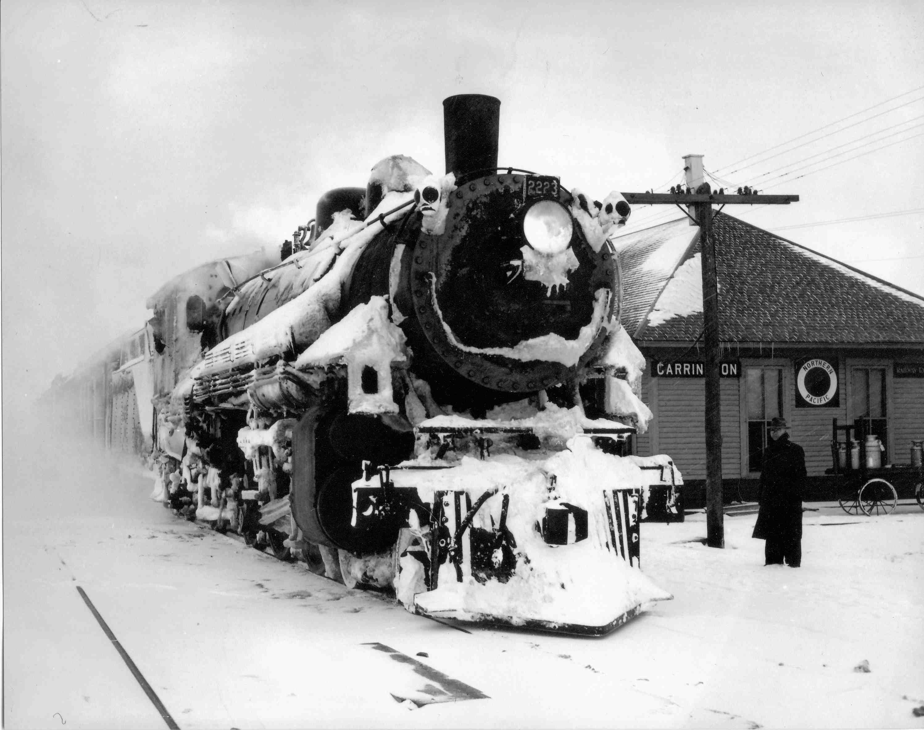 Taken in Carrington, N.D., in February 1948. My grandfather was station agent there with the Northern Pacific Railway. That's him in the overcoat & fedora. The locomotive is a 4-6-2 Pacific (NP 2223), built by Alco in 1910 and scrapped in 1957.